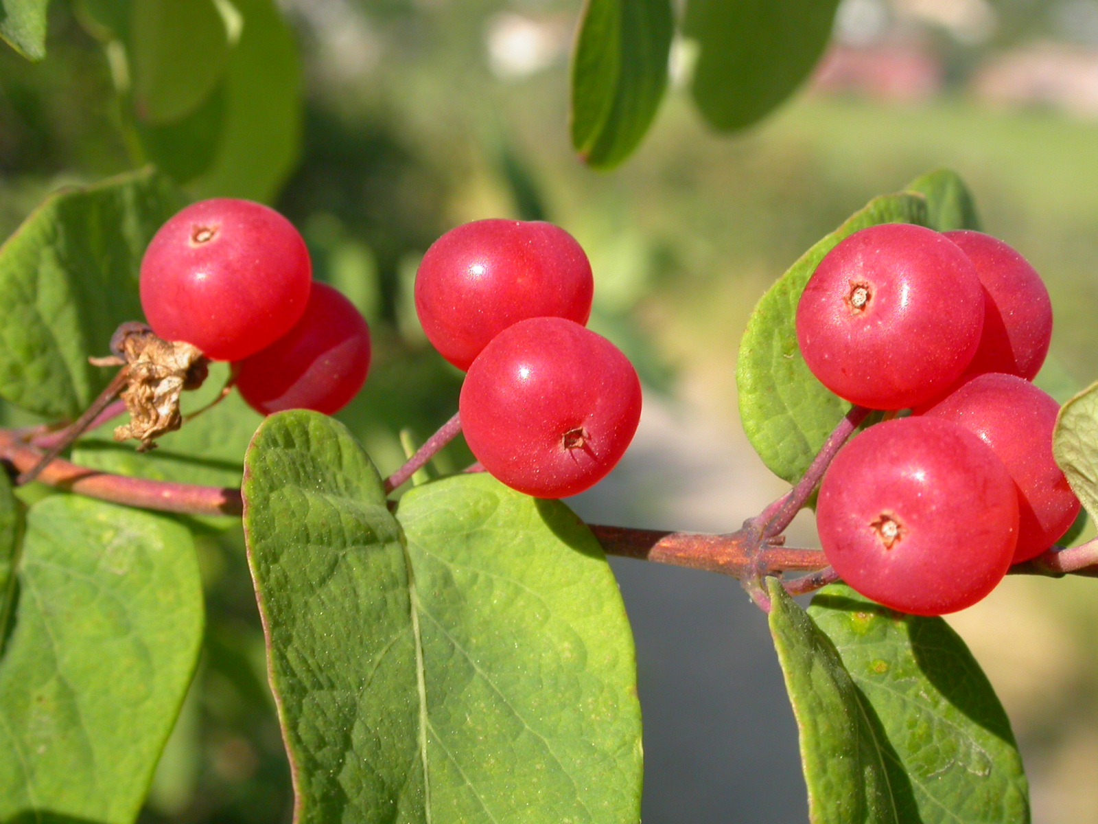 This exotic shrub escapes only along trails, roadsides, and riparian courses where disturbance is occasional.